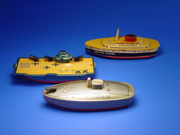 Tin toy aircraft carrier, commercial cruise and submarine